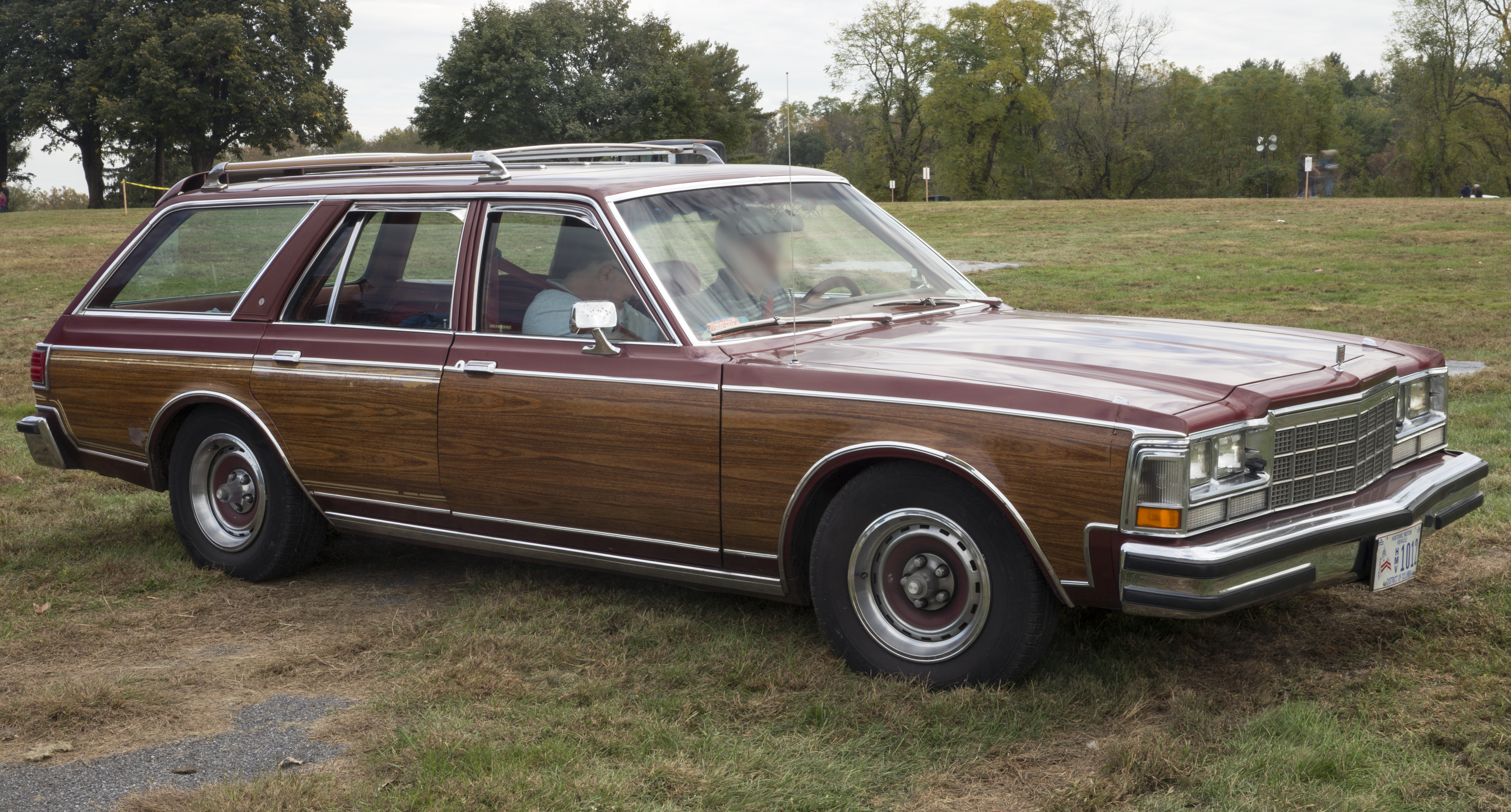 A 1979 Dodge Diplomat Salon Station Wagon (GH45) fixing to leave the show area at Hershey 2019. I believe this color is Regent Red Sunfire, it doesn't look like it should be named Chianti Red. These are exceedingly rare nowadays, although 7,785 built isn't that few.